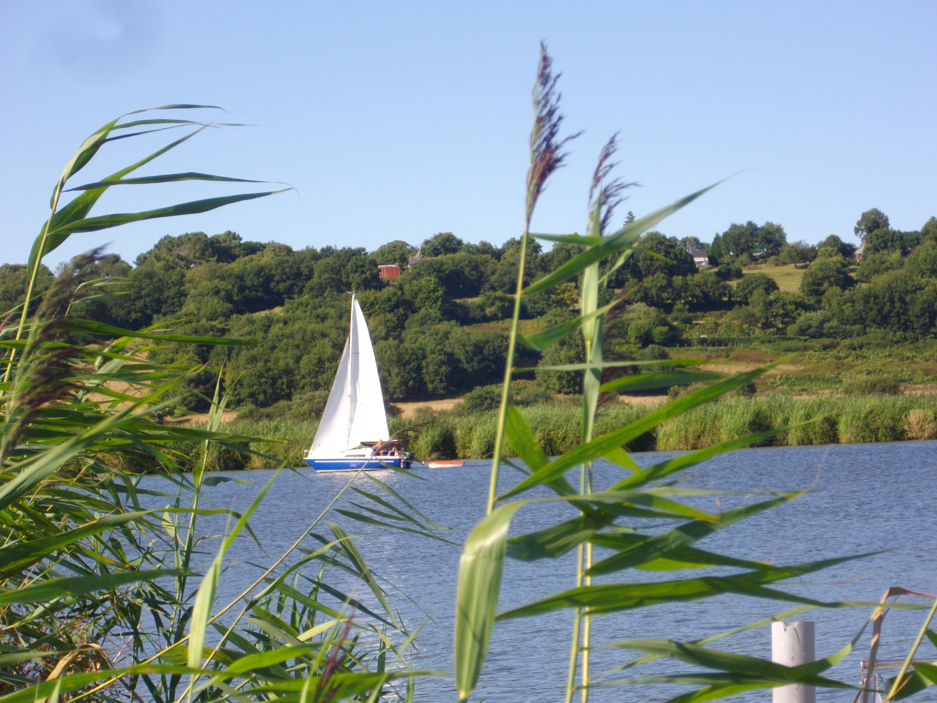 Vilaine river from Nivillac (Morbihan, France)